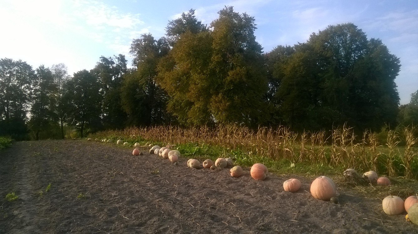 Harvesting in Mazyarka